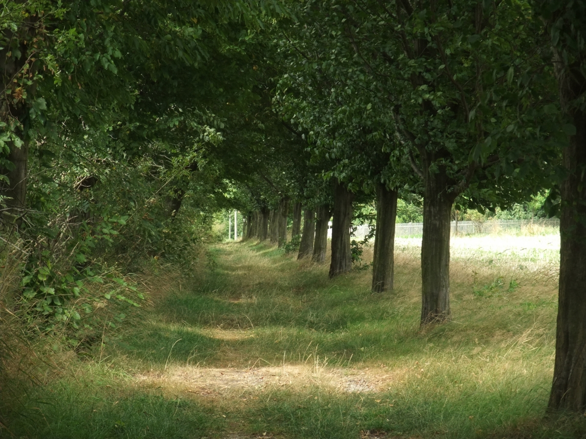 path from the Seifersdorf Valley to the castle in Seifersdorf, Saxony